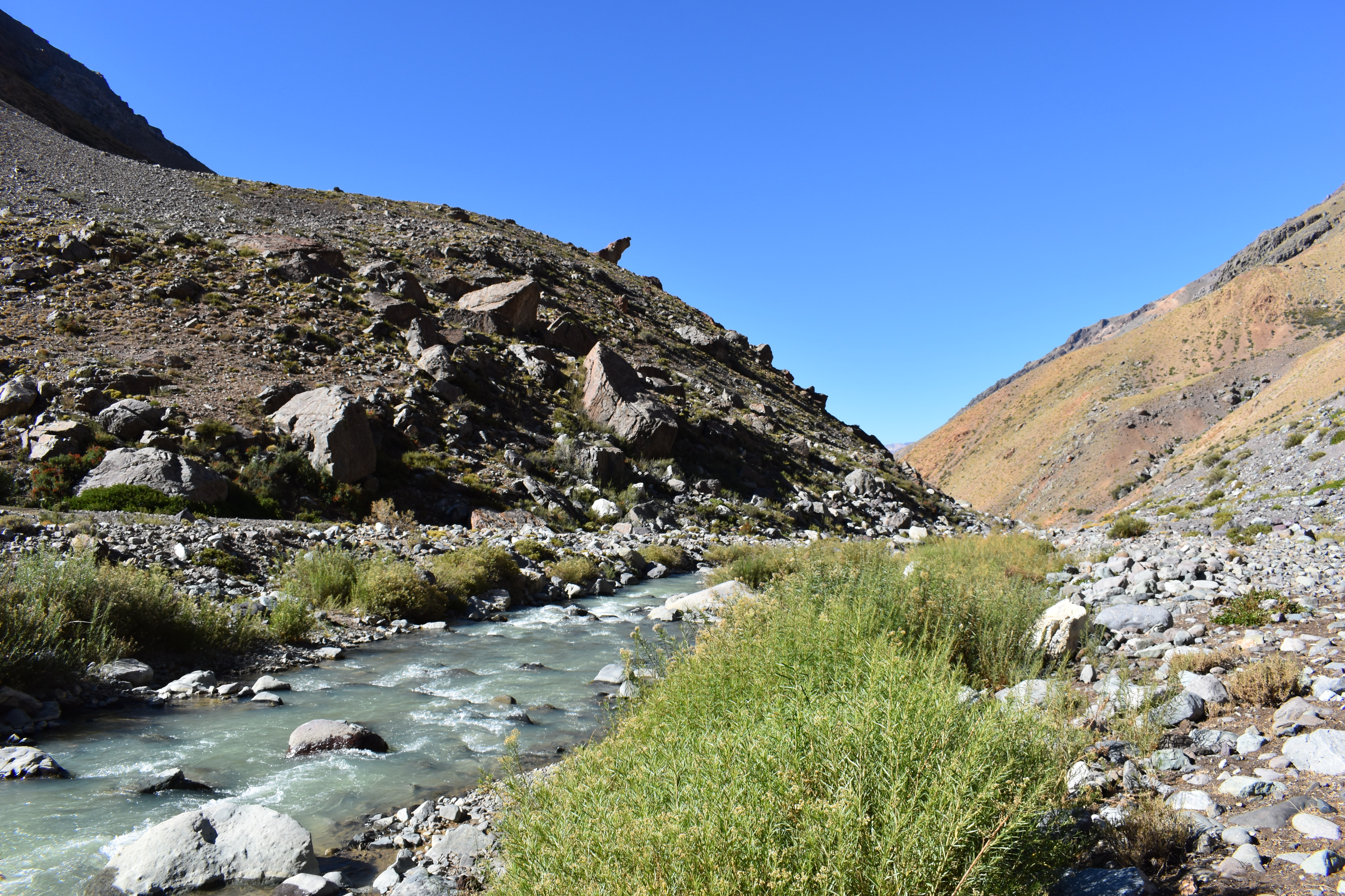 It is the largest tributary of the Aconcagua River together with the Juncal River. It is born in the mountain range of the Andes, in the limit with Argentina towards the north of the region of Valparaiso. Es el tributario mas grande del río Aconcagua, ubicado hacia el norte de la region de Valparaíso. Nace en la cordillera de los Andes, en el limite con Argentina a 3500 m.s.n.m., aunque algunos tributarios alcanzan los 3900 m.s.n.m. .